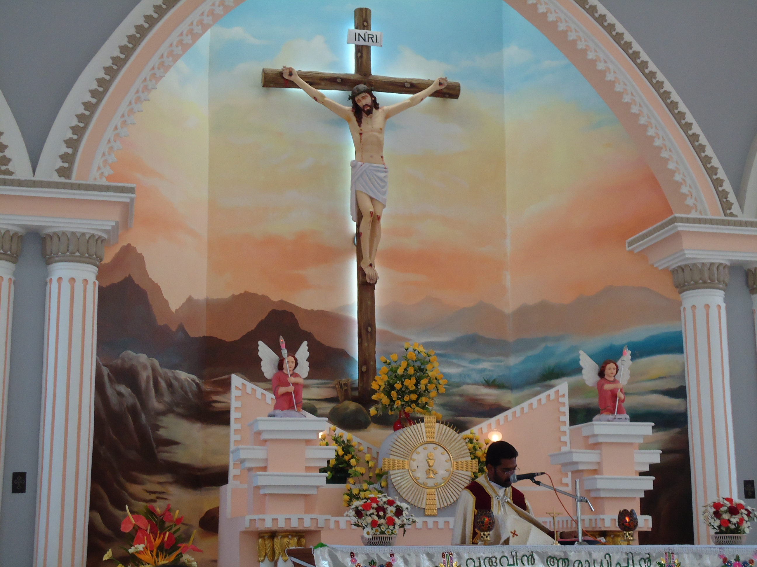 Holy Qurbana in a church in Kerala